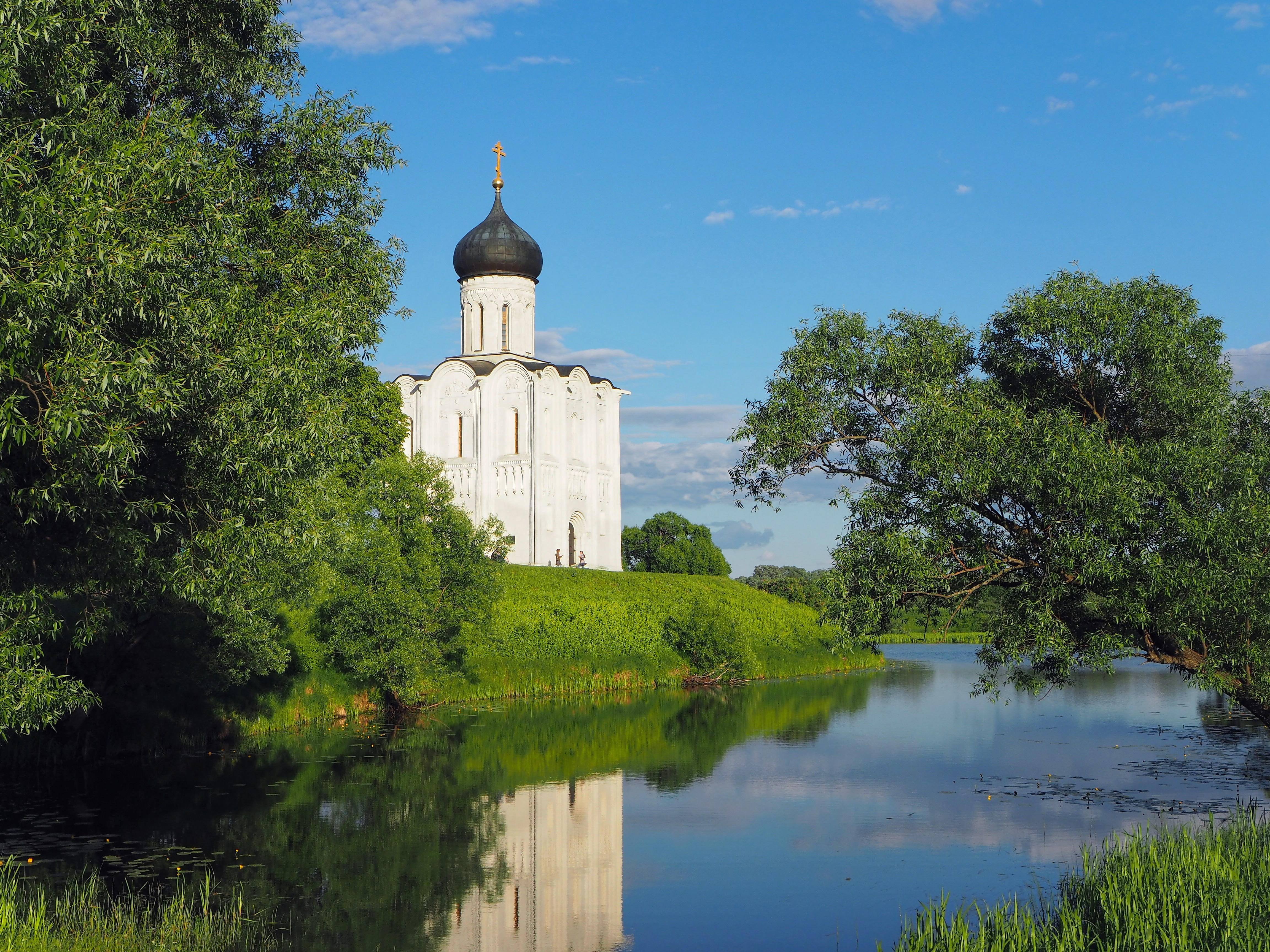 Church of the Intercession on the Nerl, Vladimir Oblast, Russia